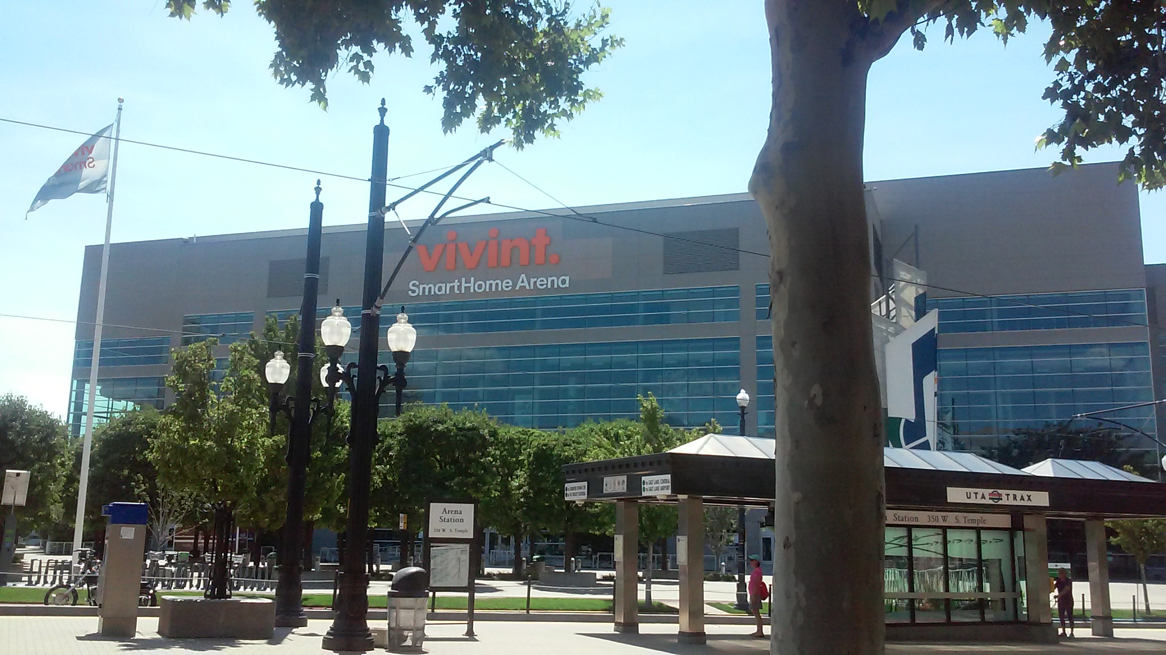 The front exterior entrance of Vivint Smart Home Arena, located in Salt Lake City, Utah. The building serves as the home arena for the National Basketball Association (NBA)'s Utah Jazz. The photo was taken at street level.